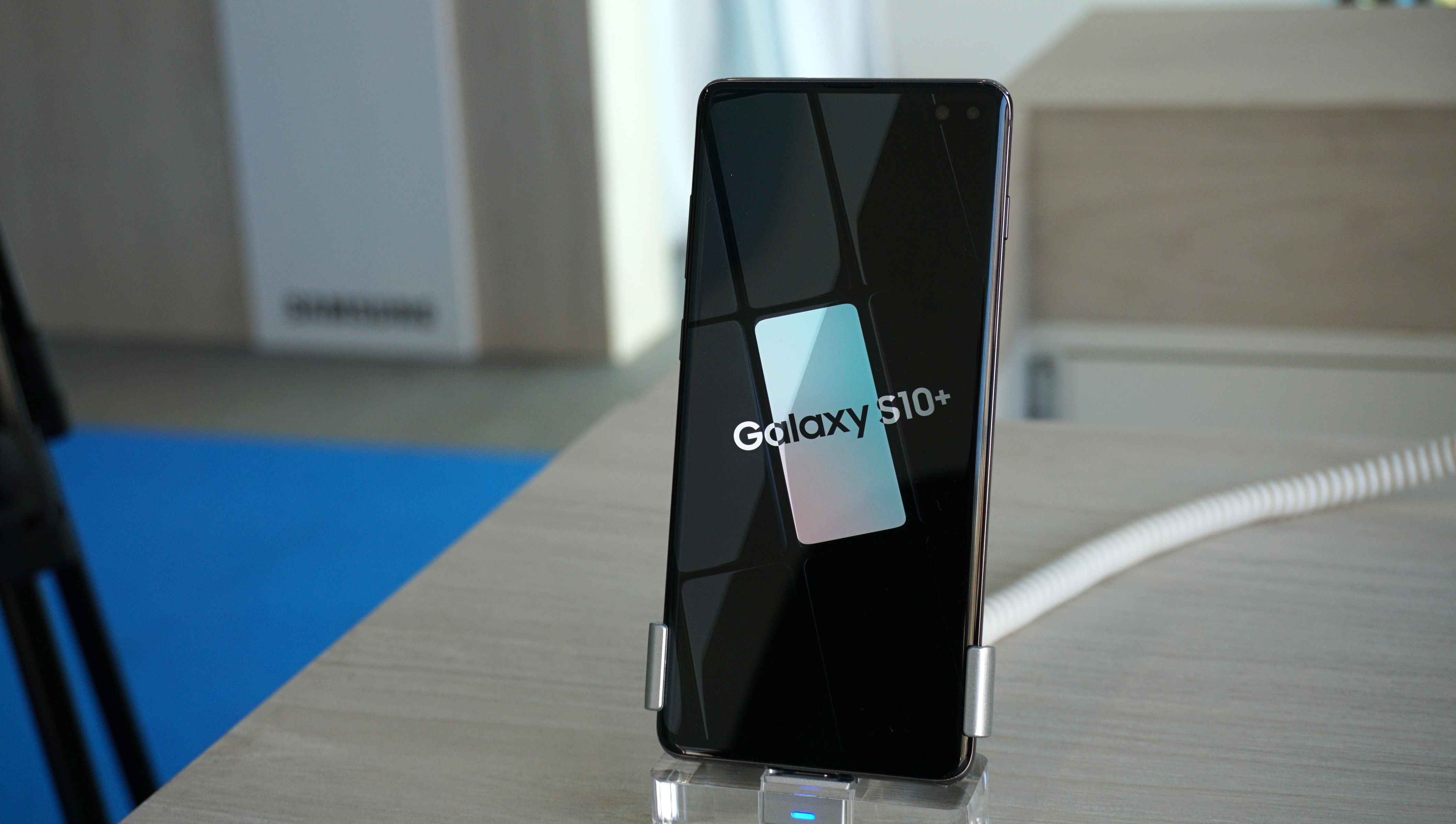 Samsung Galaxy S10